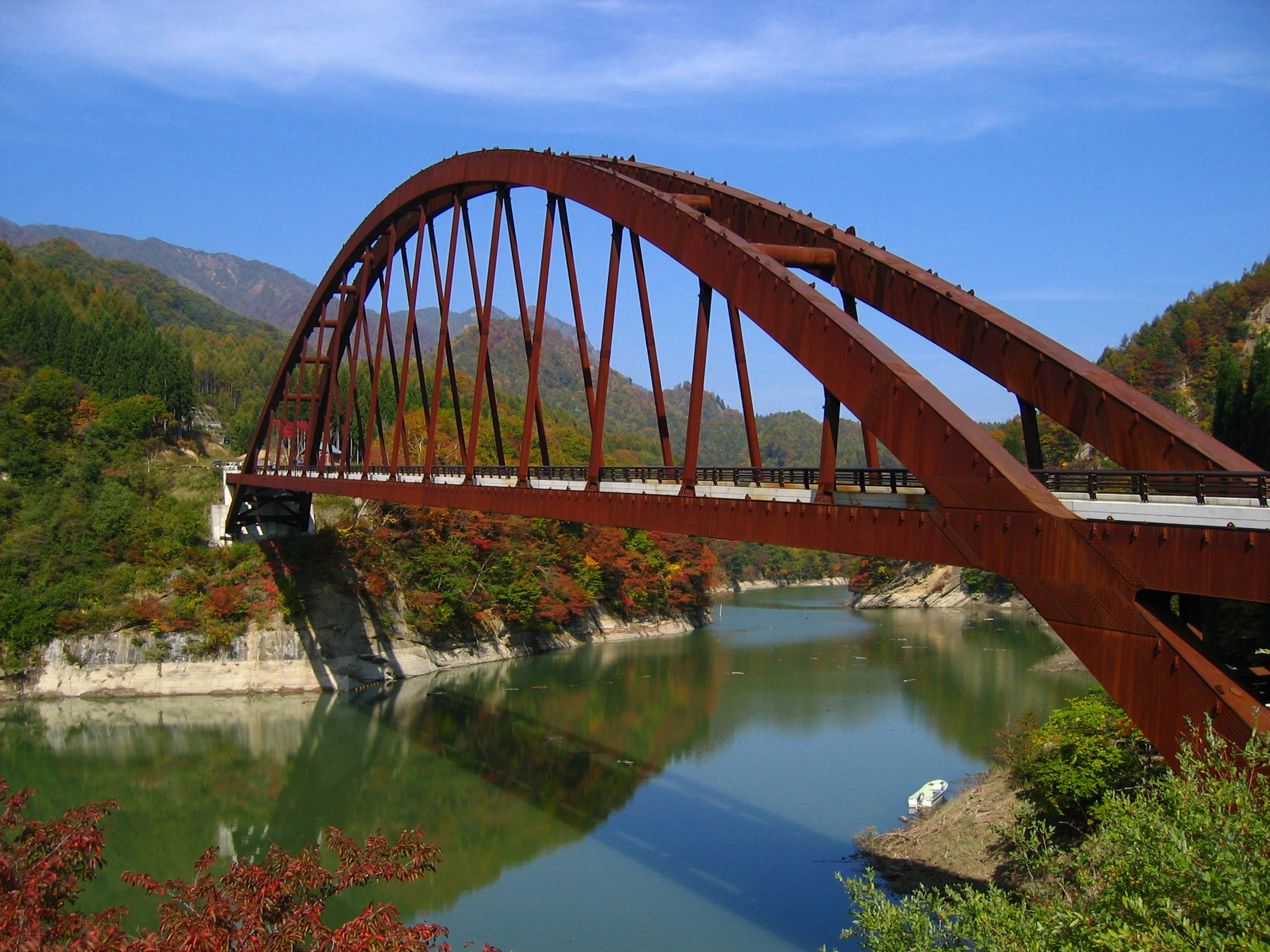 Okususobana-ohashi Bridge (奥裾花大橋) was built over the lake of Okususobana Dam (奥裾花ダム).